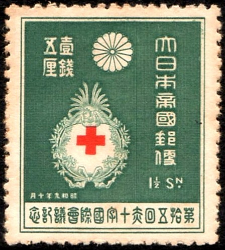 1.5-sen Japanese stamp, commemorating International Red Cross Conference in Tokyo. Sakura #57, Scott catalog #214